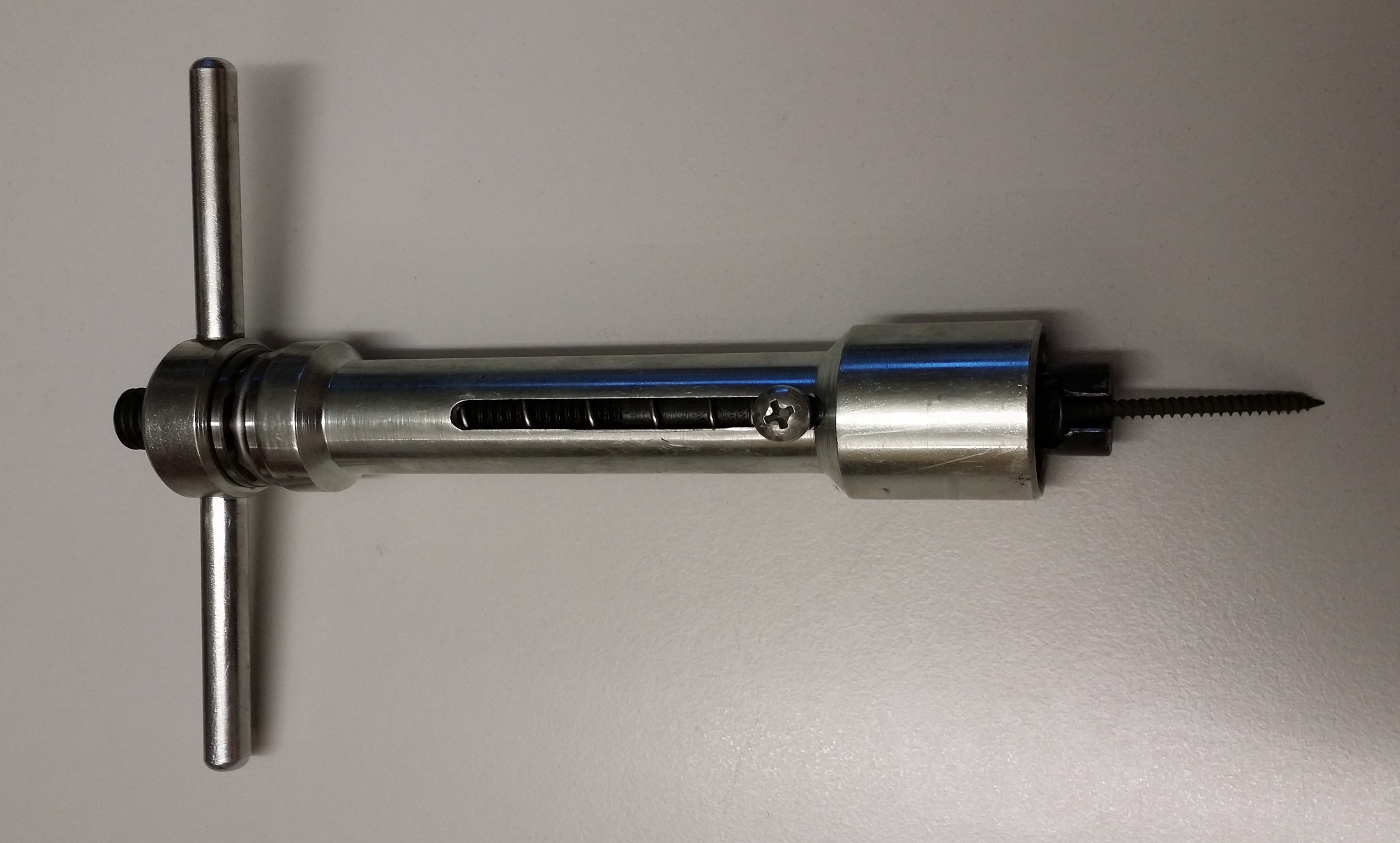 Tool for illegal open car doors